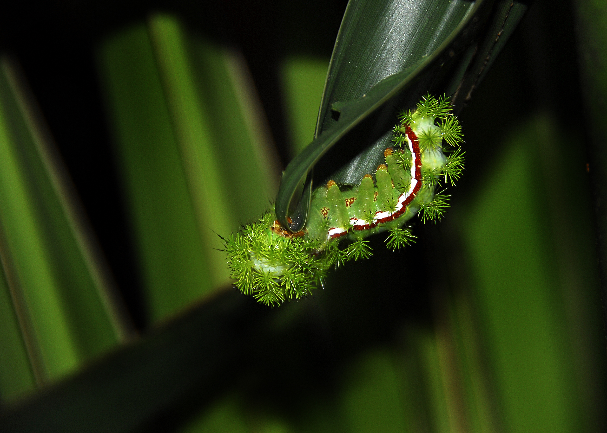 Caterpillar in Gemini Springs, Florida I found this caterpillar munching away on a palmetto frond in Gemini Springs, Florida. It was seriously cloudy so I had to use my flash.